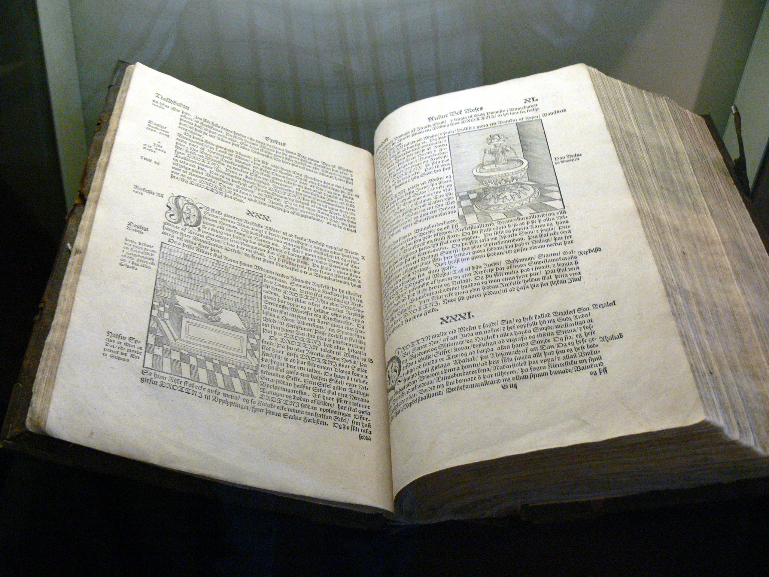 National Museum of Iceland, Reykjavik. First Bible written in Icelandic printed 1584 in Hólar by bishop Guðbrandur Thorlaksson.